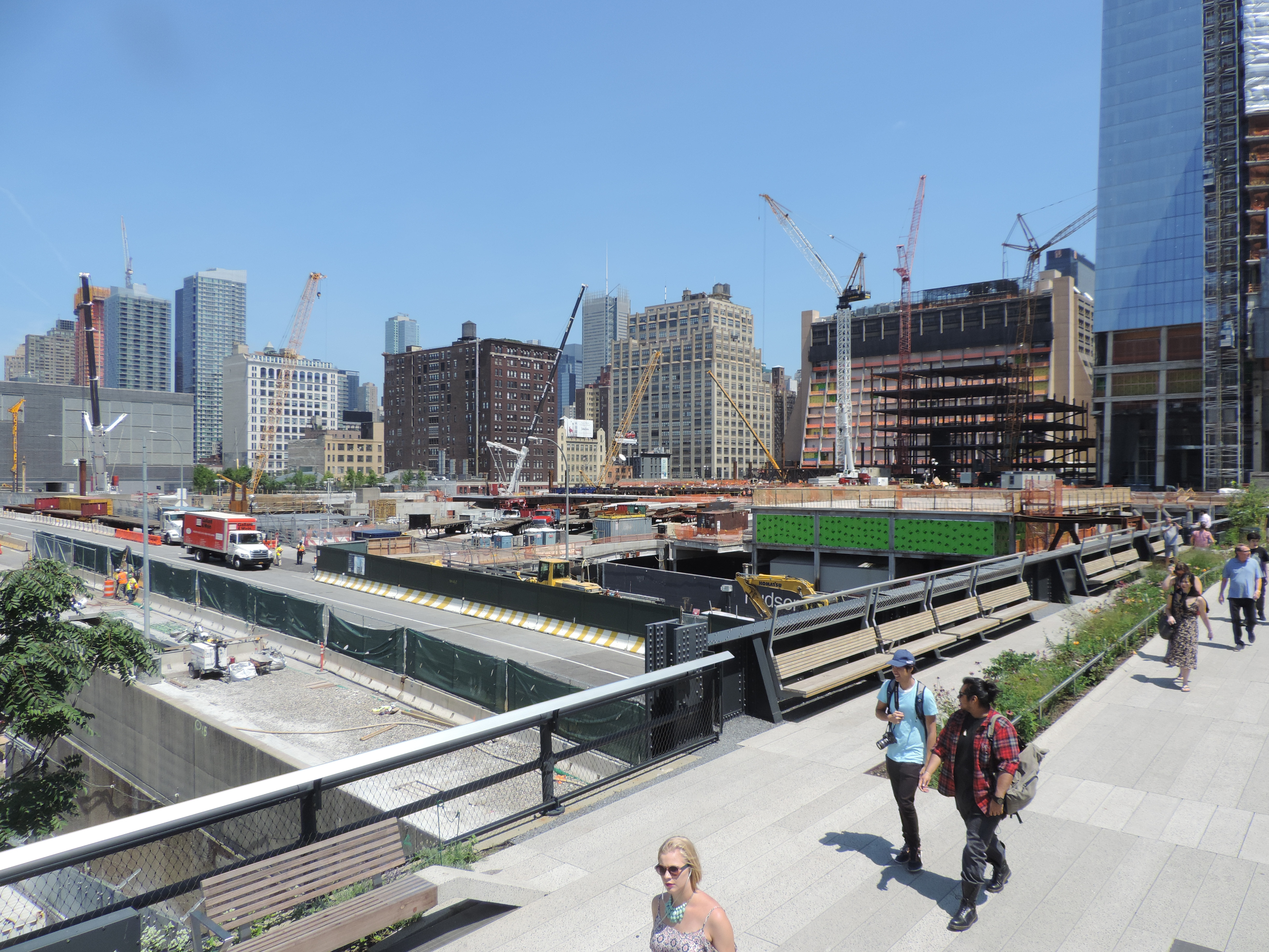 Looking east from High Line over 30th Street on a sunny midday.